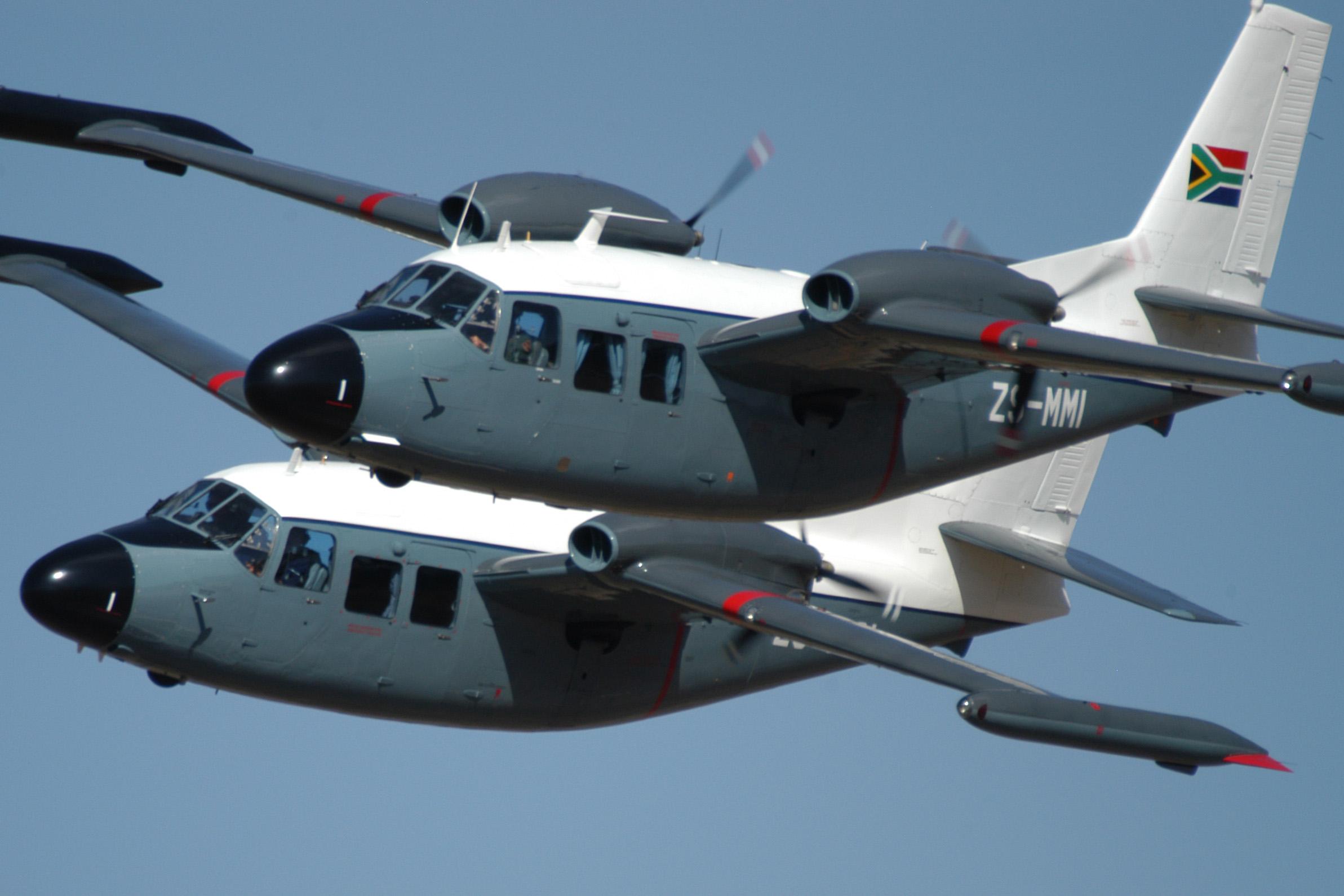 Ex SAAF Piaggio P166 Albatros now privately owned